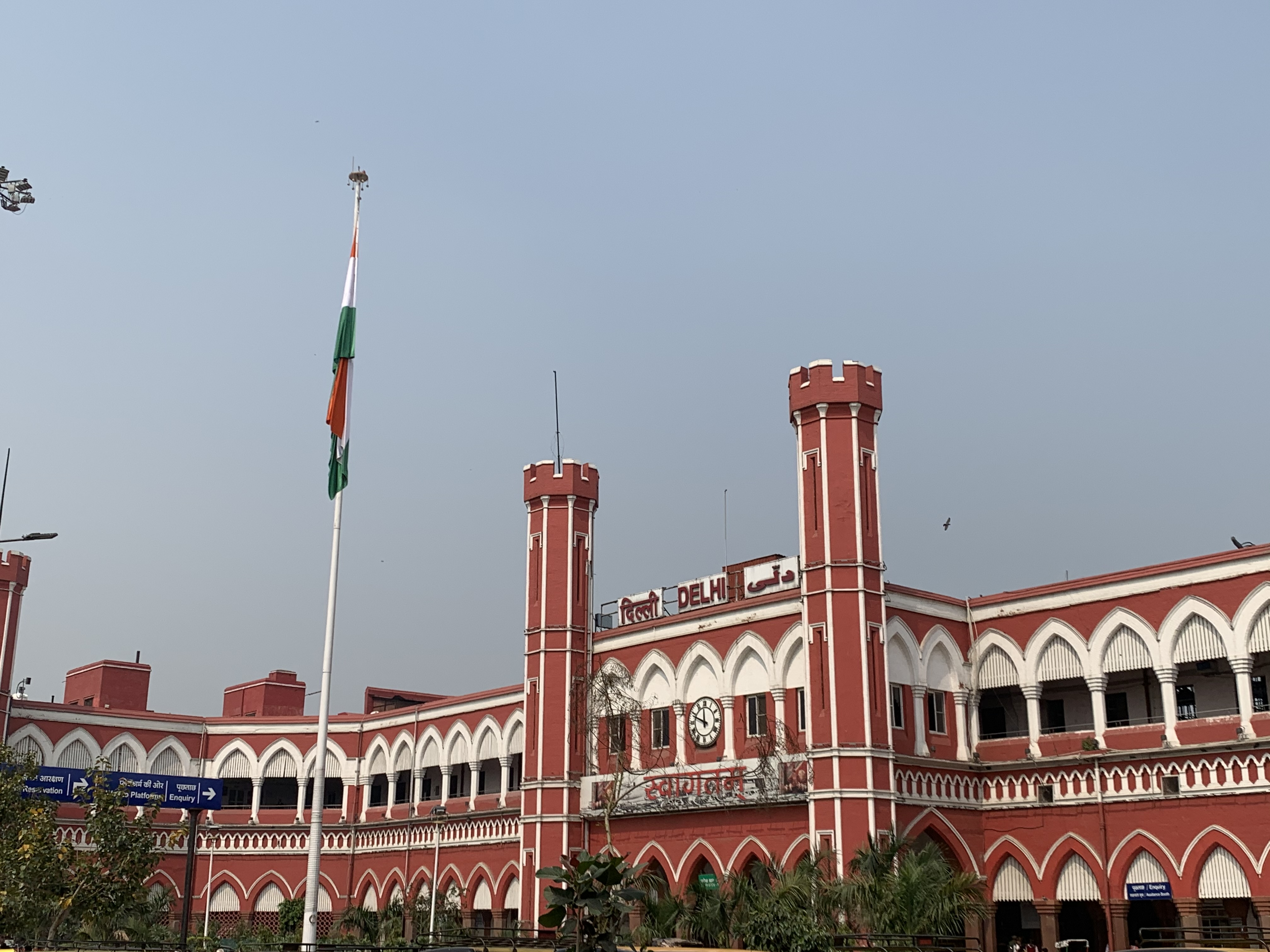 the front side of Old delhi railway station